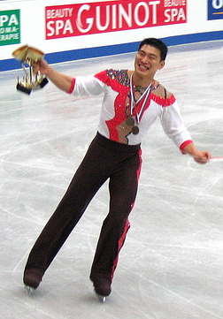 Hao Zhang during the medal ceremony at the Grand Prix Final 2006 in Saint Petersbug, Russia.